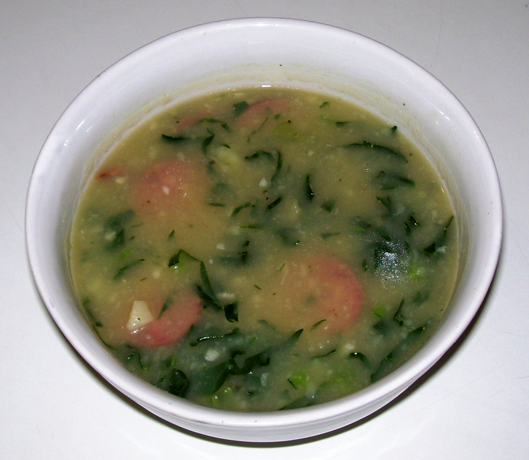 Caldo verde, a typic soup of Portugal.